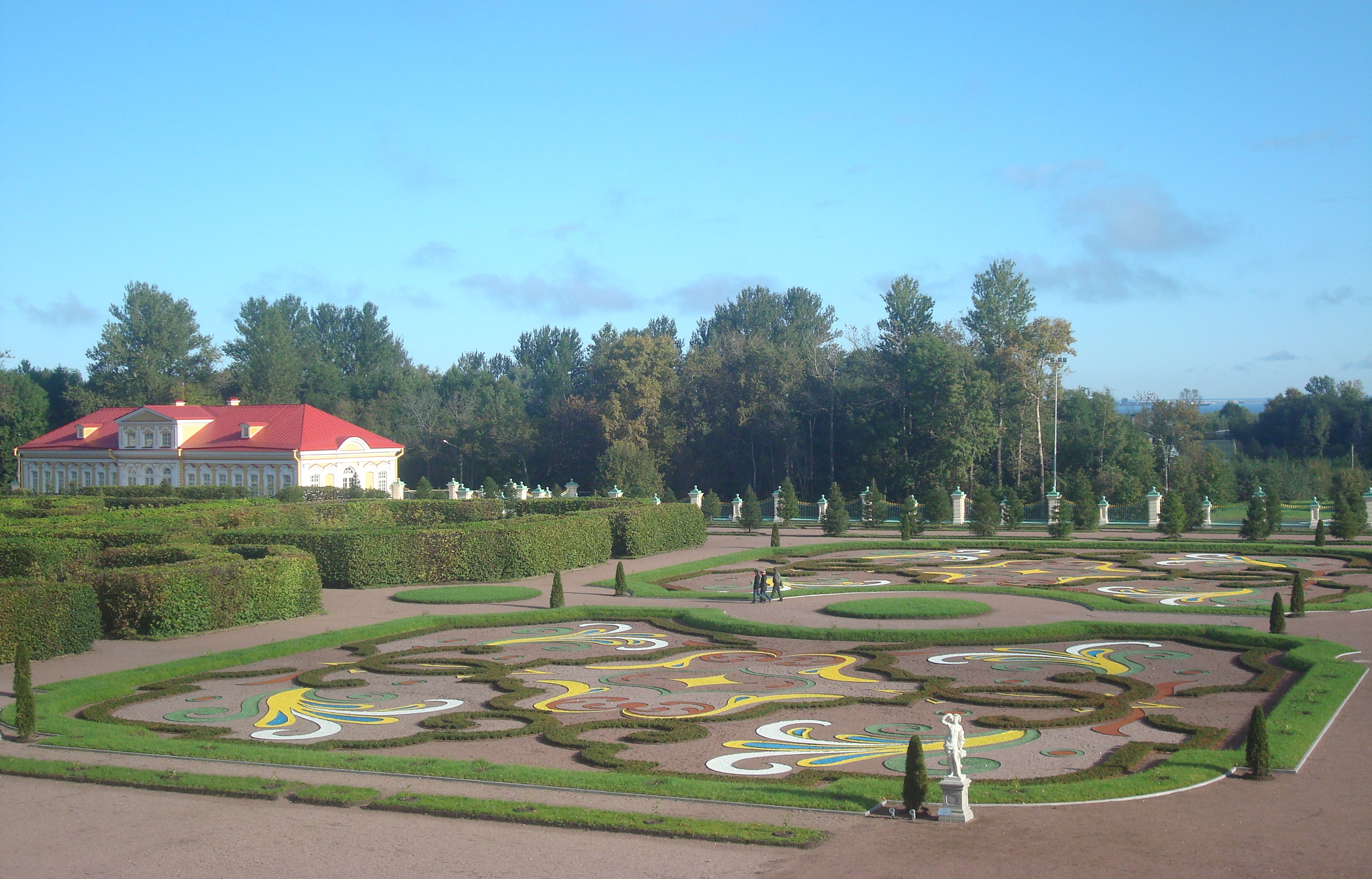 Lower Garden in Oranienbaum, Russia